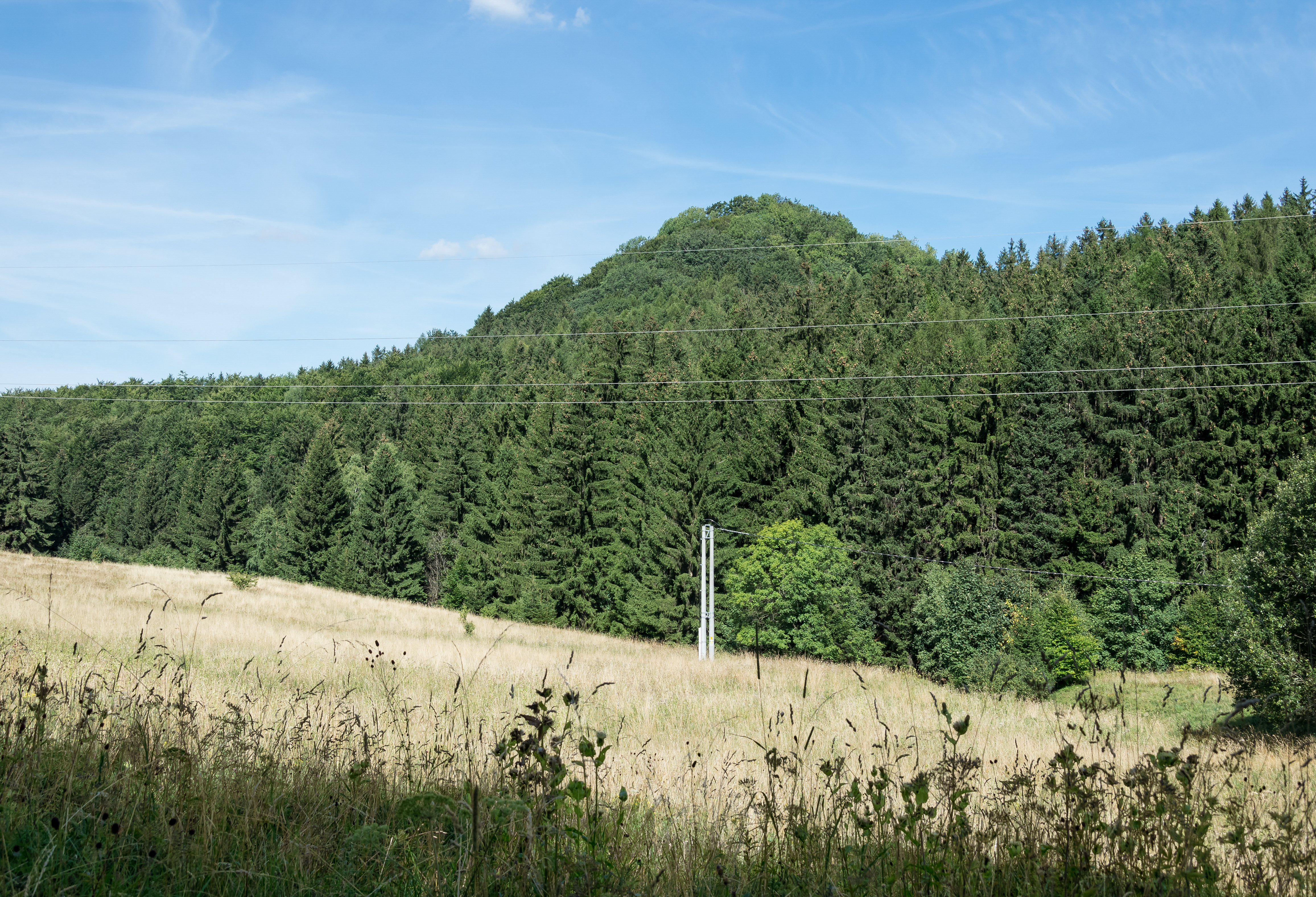 Gomoła, Lewińskie Hills, Sudetes This is a photography of protected area with CRFOP ID PL.ZIPOP.1393.PN.15